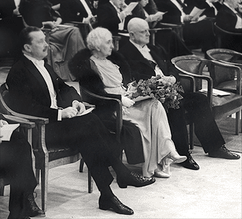 Mannerheim, Aino and Jean Sibelius at the composer's 70th birthday celebration.